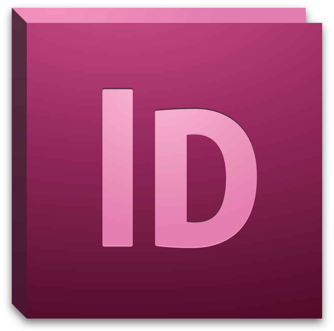 Application icon for Adobe InDesign